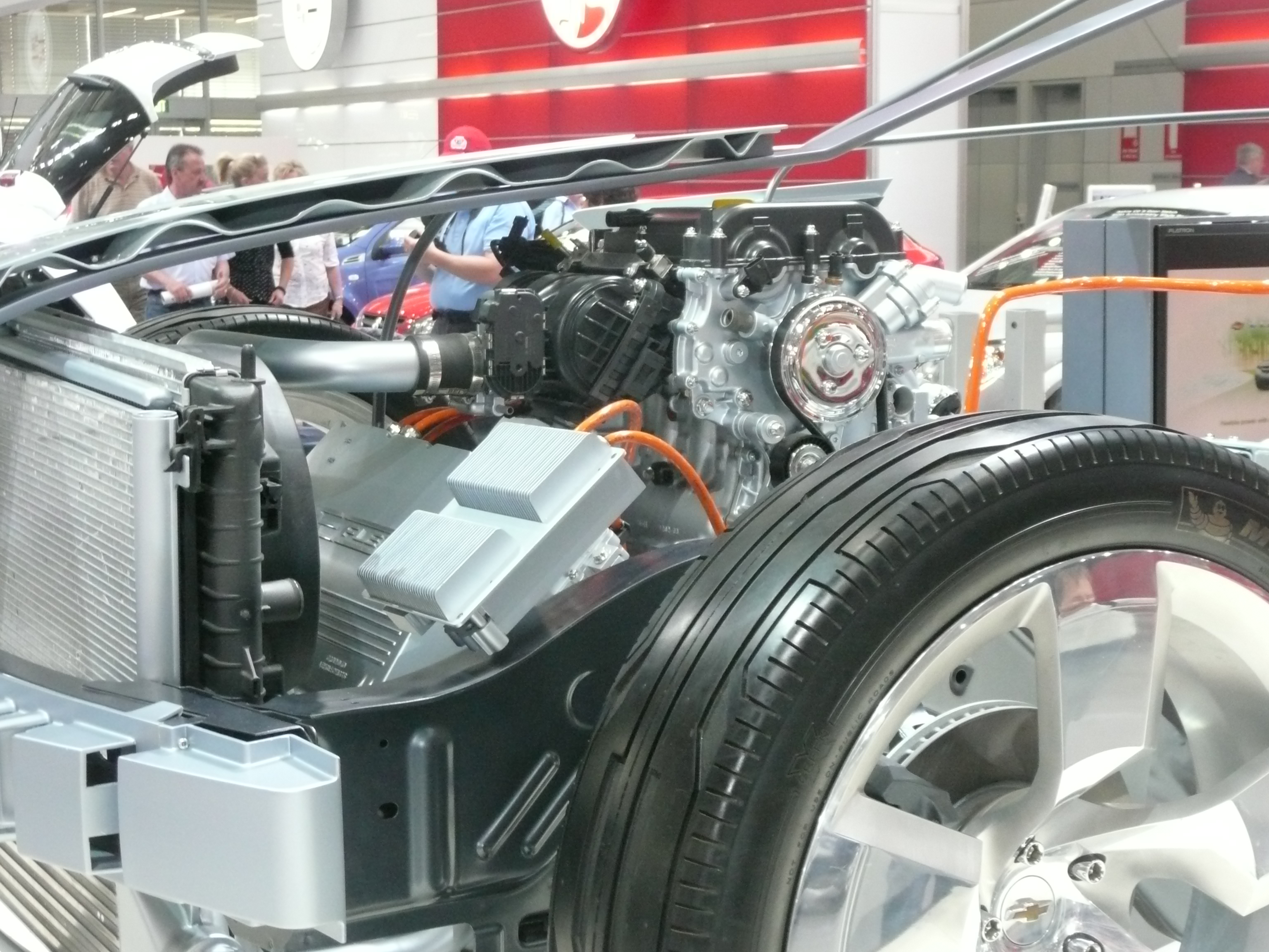 2008 Chevrolet Volt hatchback (concept). Photographed at the 2008 Australian International Motor Show, Sydney, New South Wales, Australia.